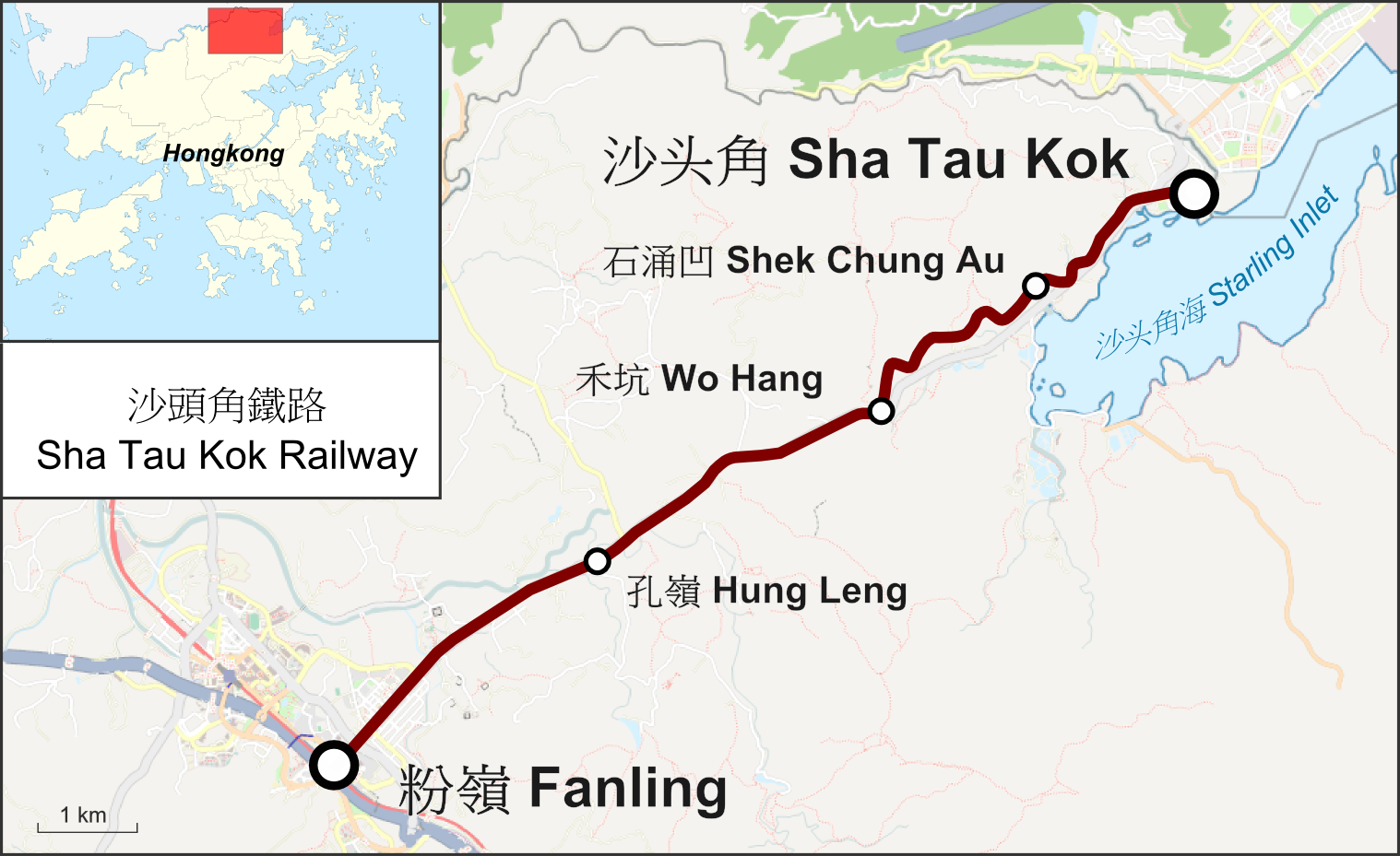 Map of the Sha Tau Kok Railway in Hongkong